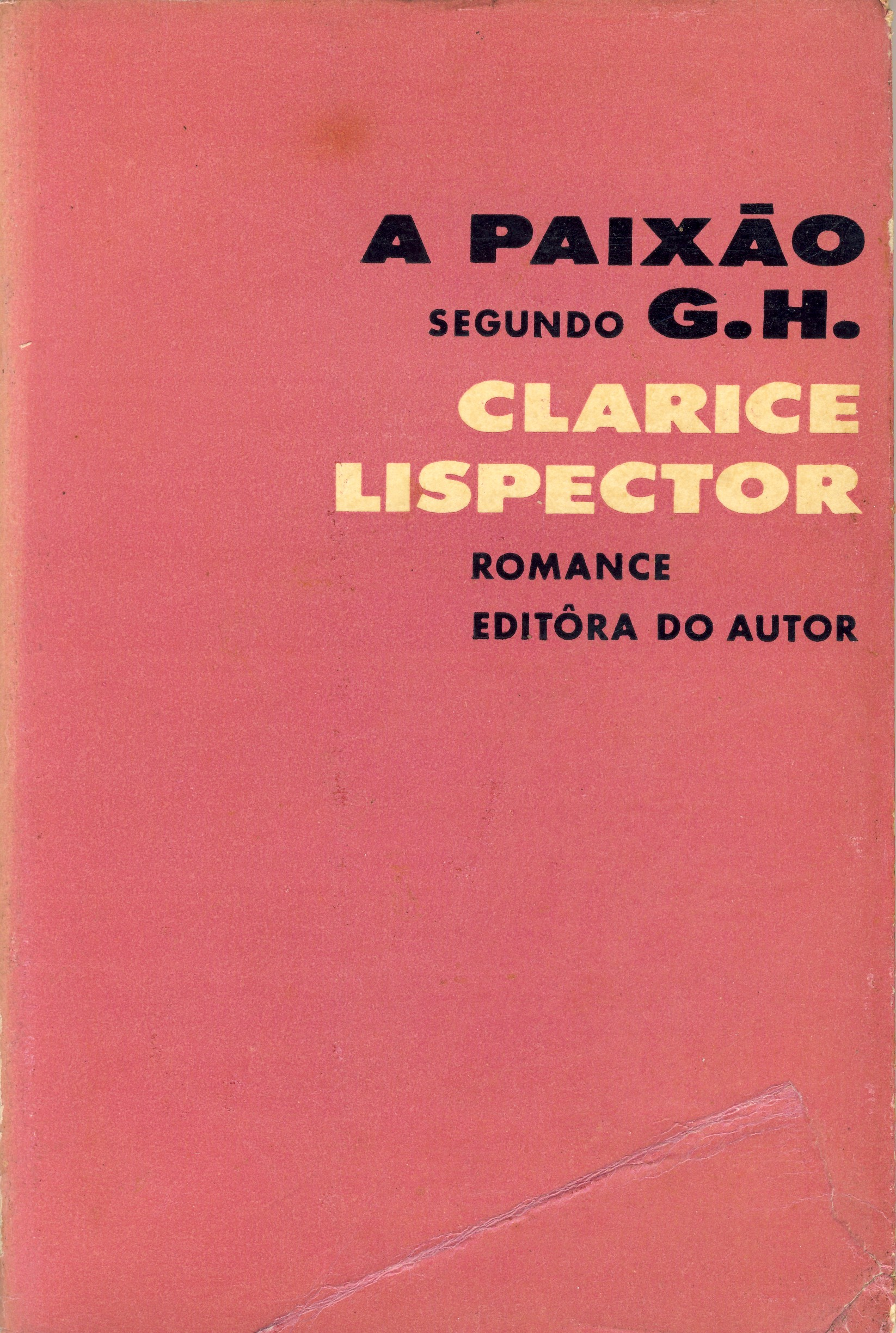 A paixão segundo G.H. (The Passion According to G.H.) (1964), a novel about a woman, G.H., compelled by a dazzling mystic encounter with a dying cockroach, is one of Lispector's most shocking and original works.